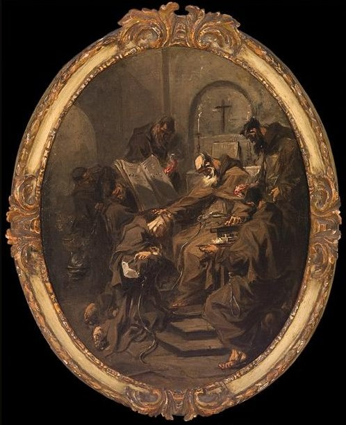 Consecration of a Franciscan Friar